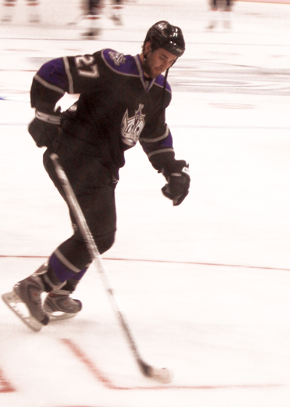 Kyle Quincey prior to the Los Angeles Kings' game against the Washington Capitals at Staples Center.